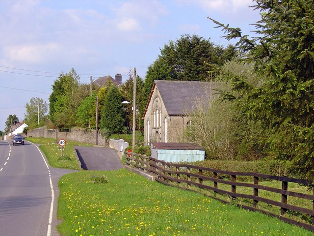 Chapel: Llangybi The Calvinistic Methodist Capel Maes-y-ffynnon.